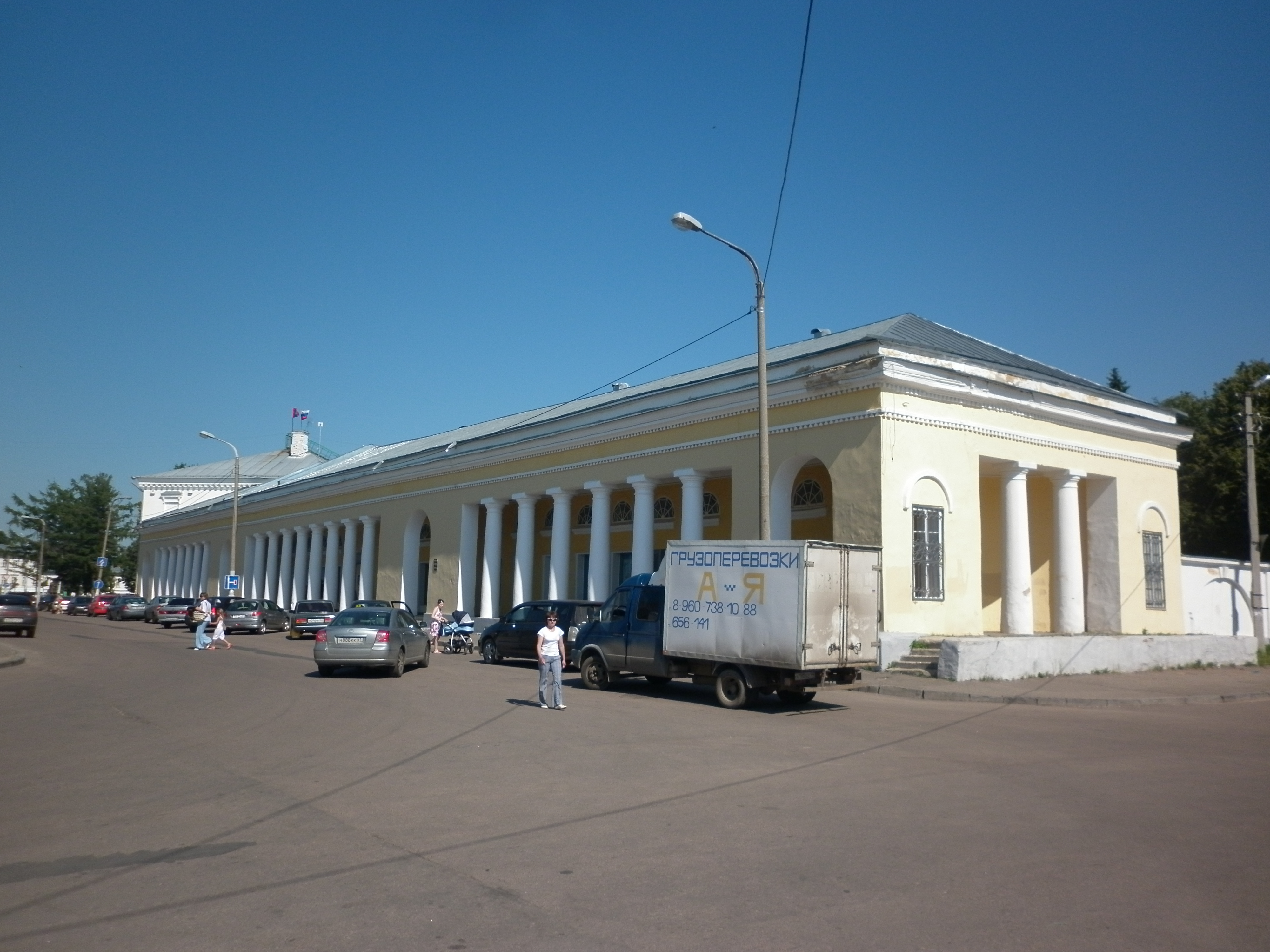 Находится у ГАЗели.